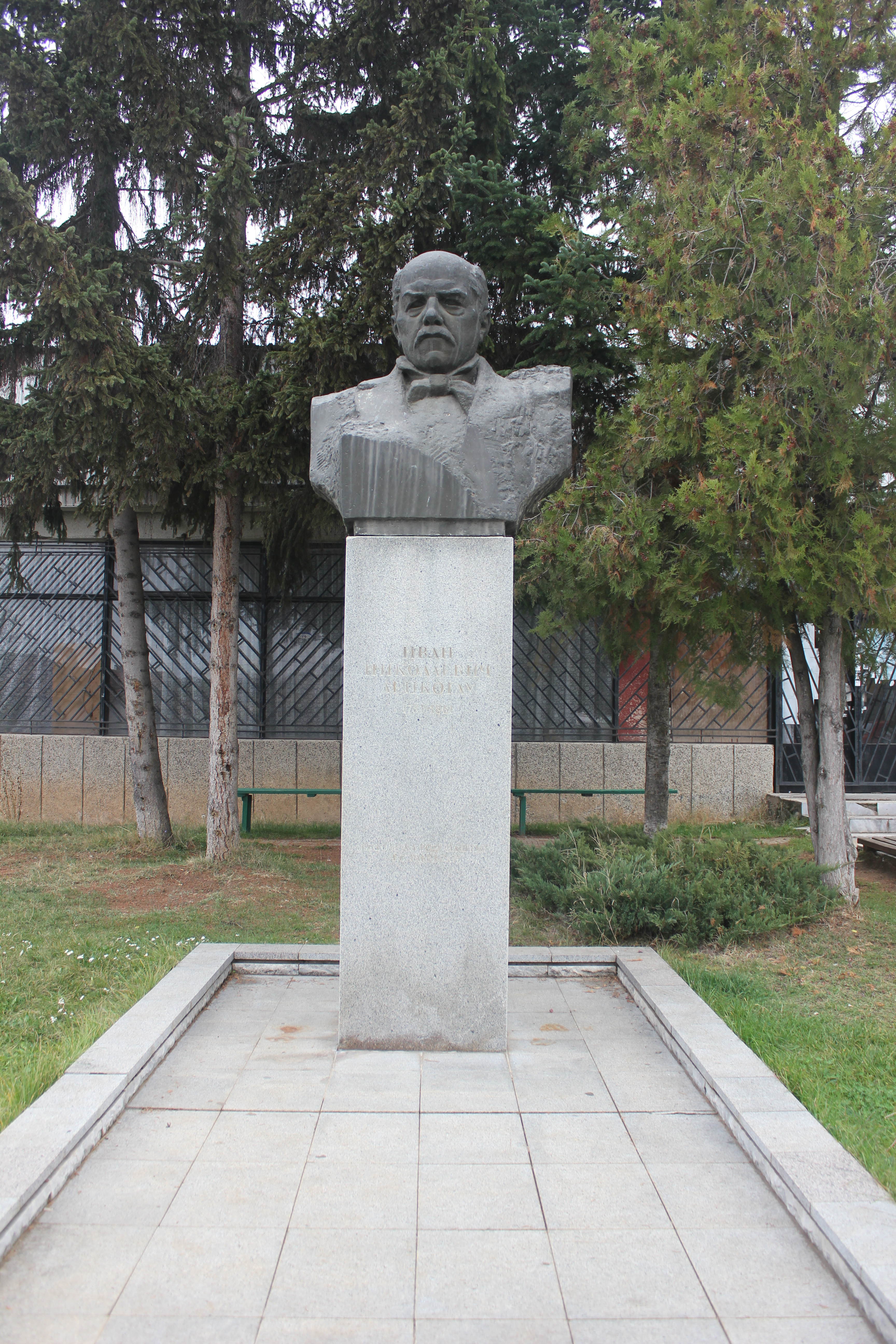 Denkoglu Monument in Balsha